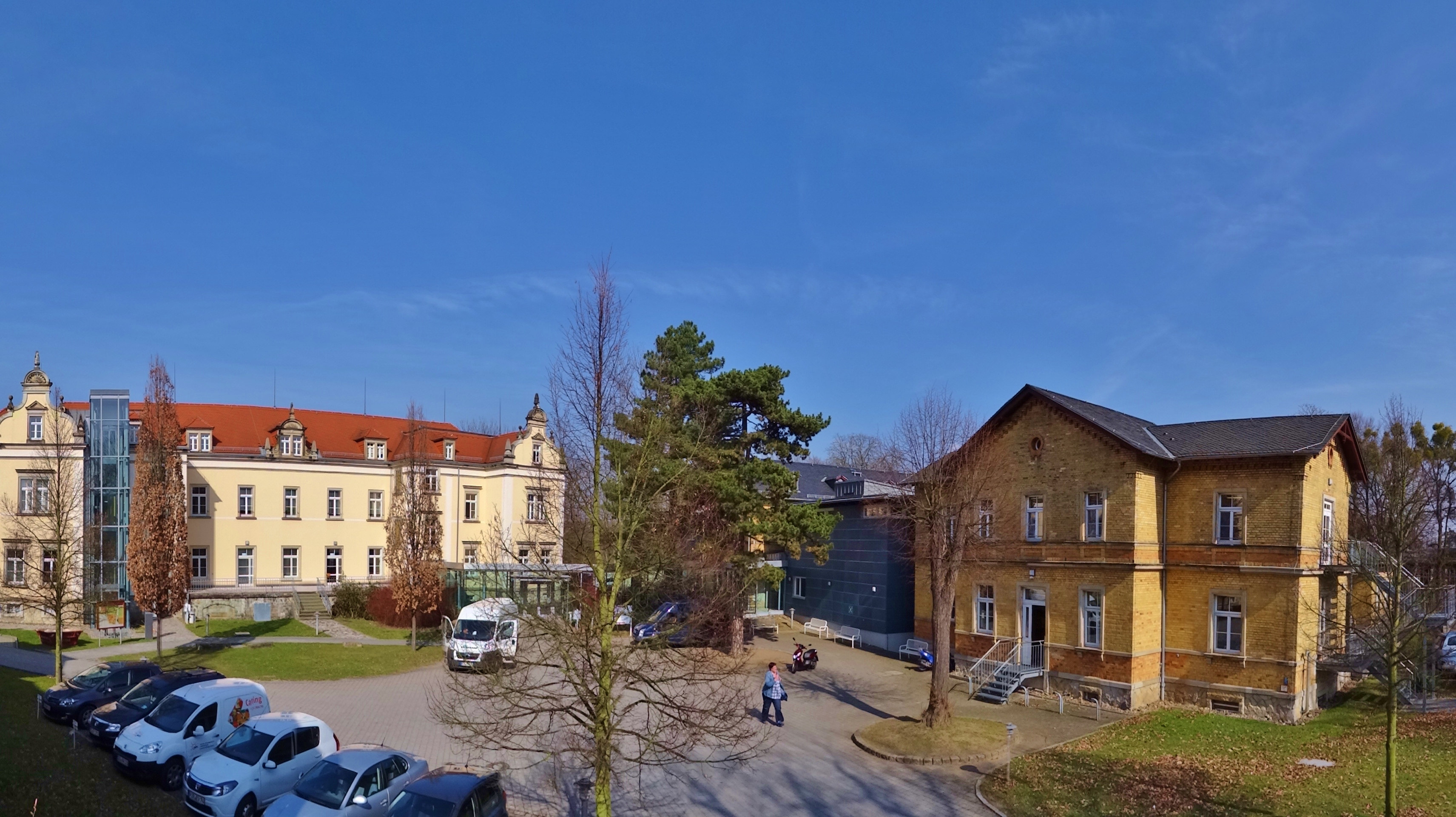 The Human rights memorial Castle-Fortress Sonnenstein in Pirna's old-town.